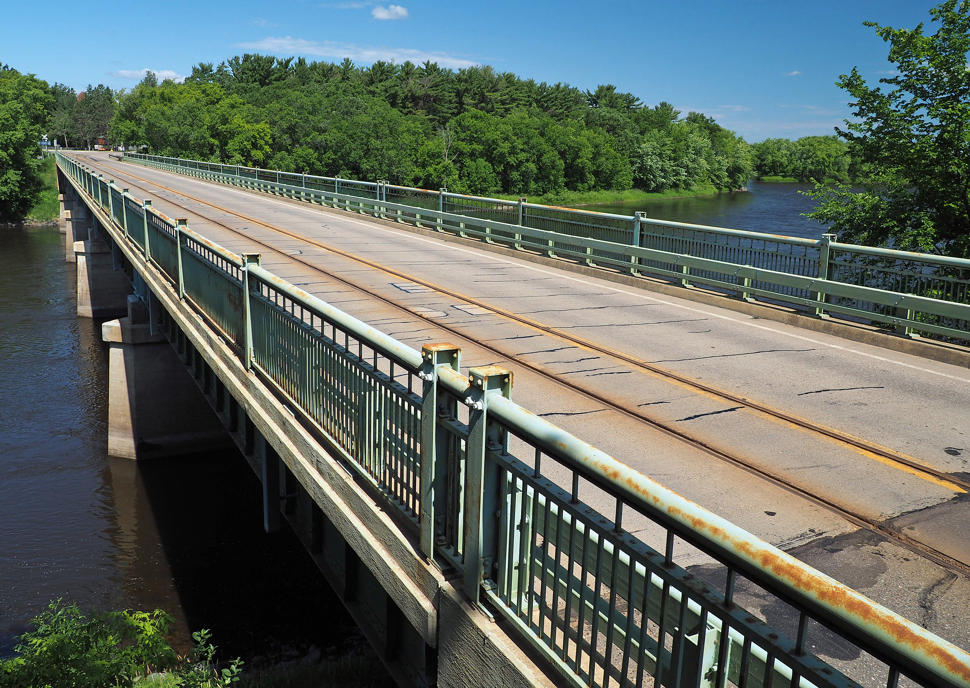 Camp Ripley Bridge, MN 115 over the Mississippi River, Ripley Township, Minnesota, USA. Viewed from the southeast.